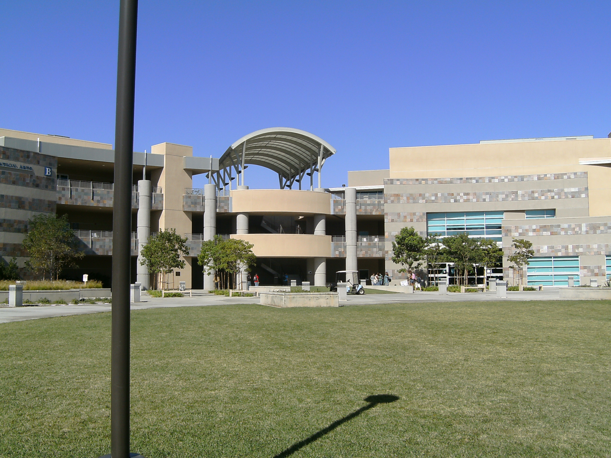 A Photograph Of the Cuyamaca College Communication Arts Building.